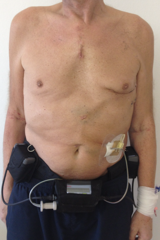 left ventricular assist device hannover